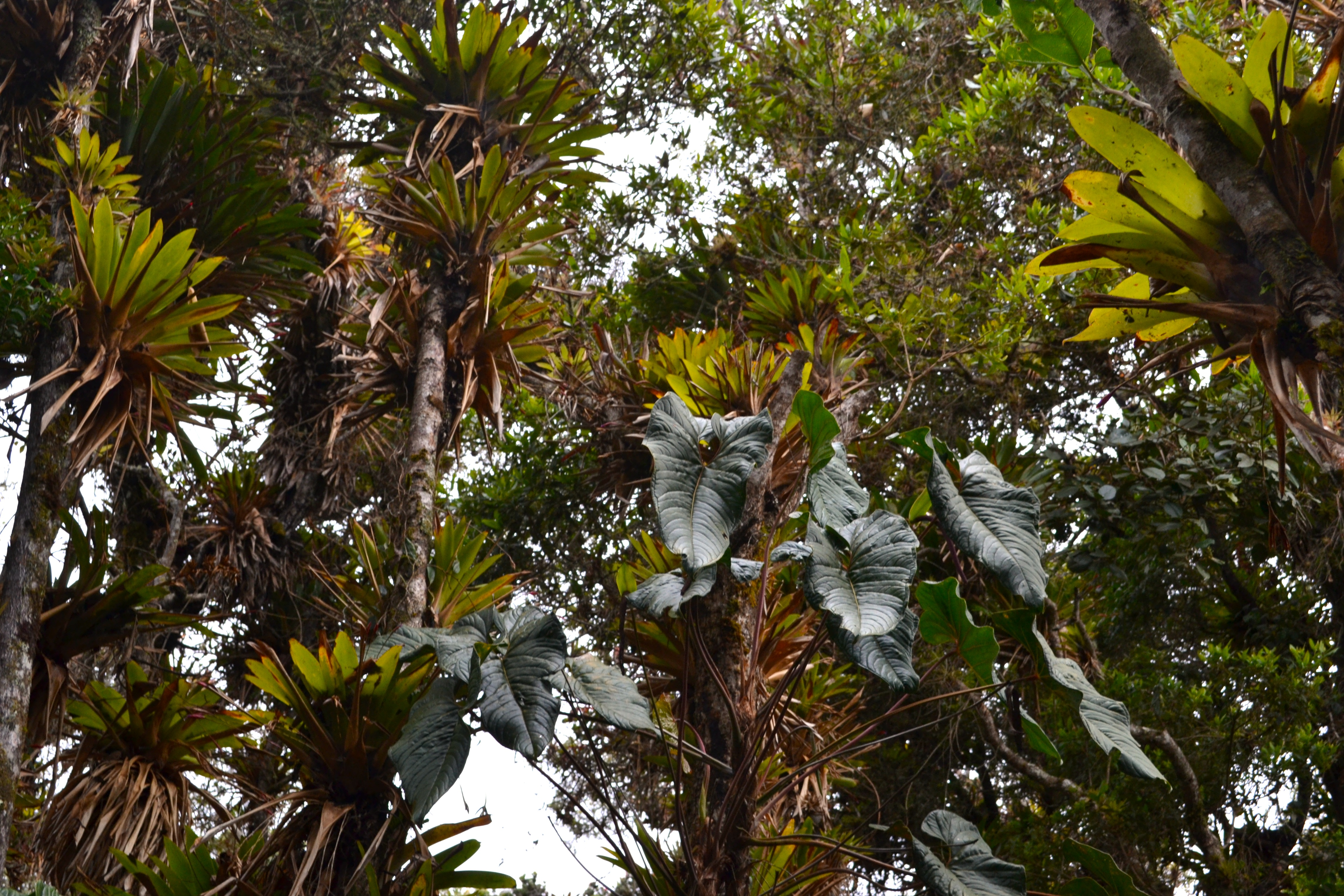 native andean humid woods at the Isla de la Corota, Colombia.